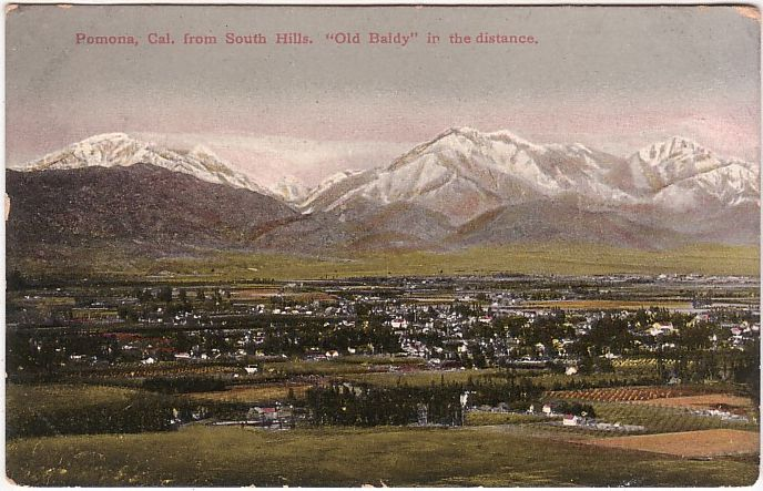 c 1910 postcard image of Old Baldy in SoCal Category:San Gabriel Mountains